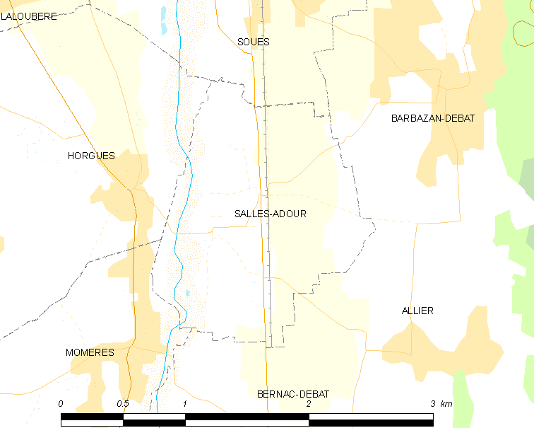 Map of French municipality